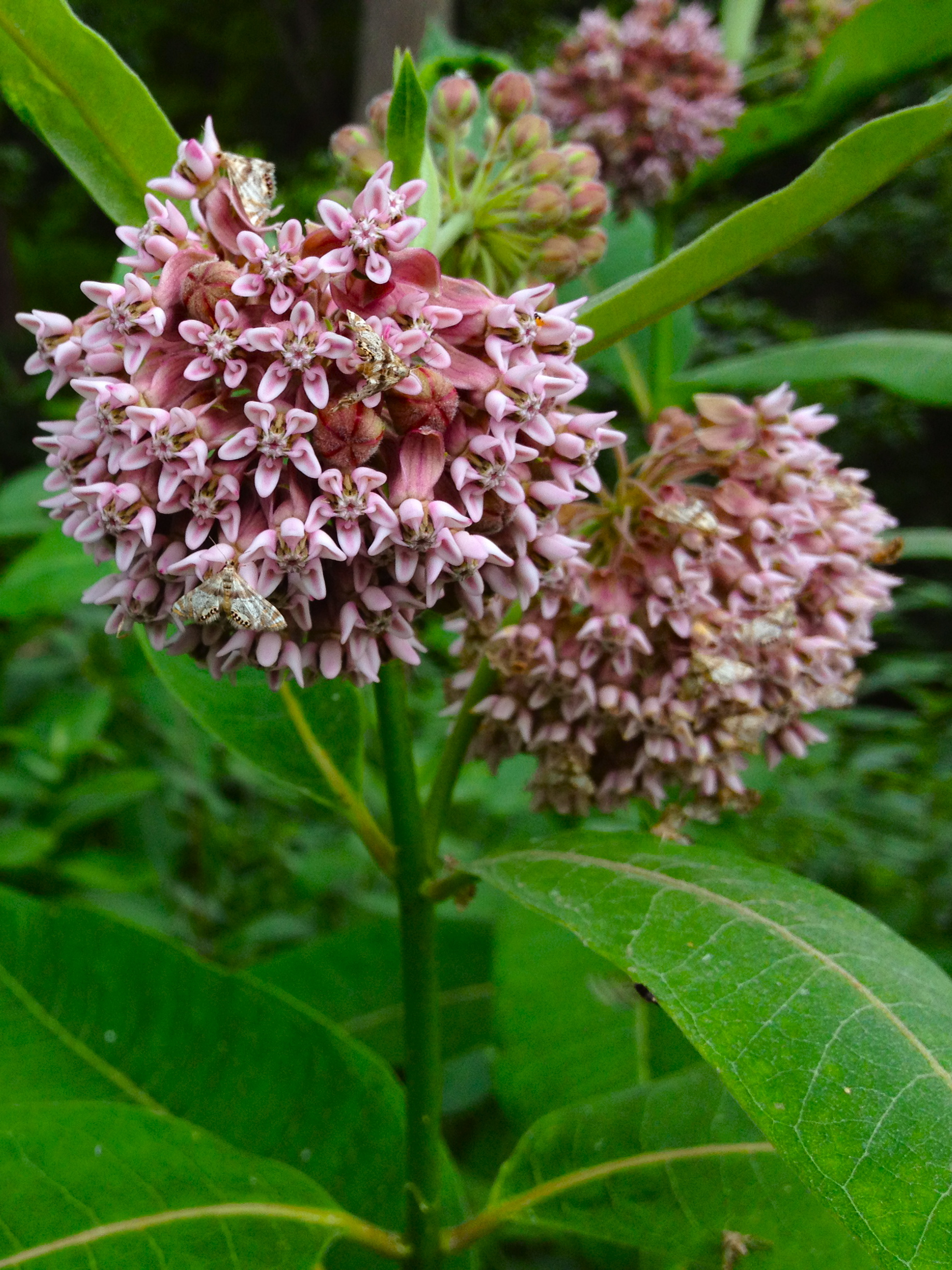 Photo of Asclepias syriaca in flower. This is a native plant growing wild in Scotts Run Nature Preserve, Fairfax county Virginia, USA. This species is a member of the Apocynaceae family.